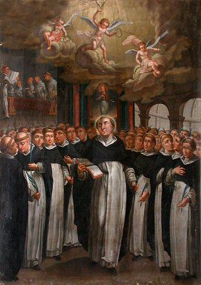 Dominican Church and Convent of St. James in Sandomierz Sadok and 48 Dominican martyrs from Sandomierz